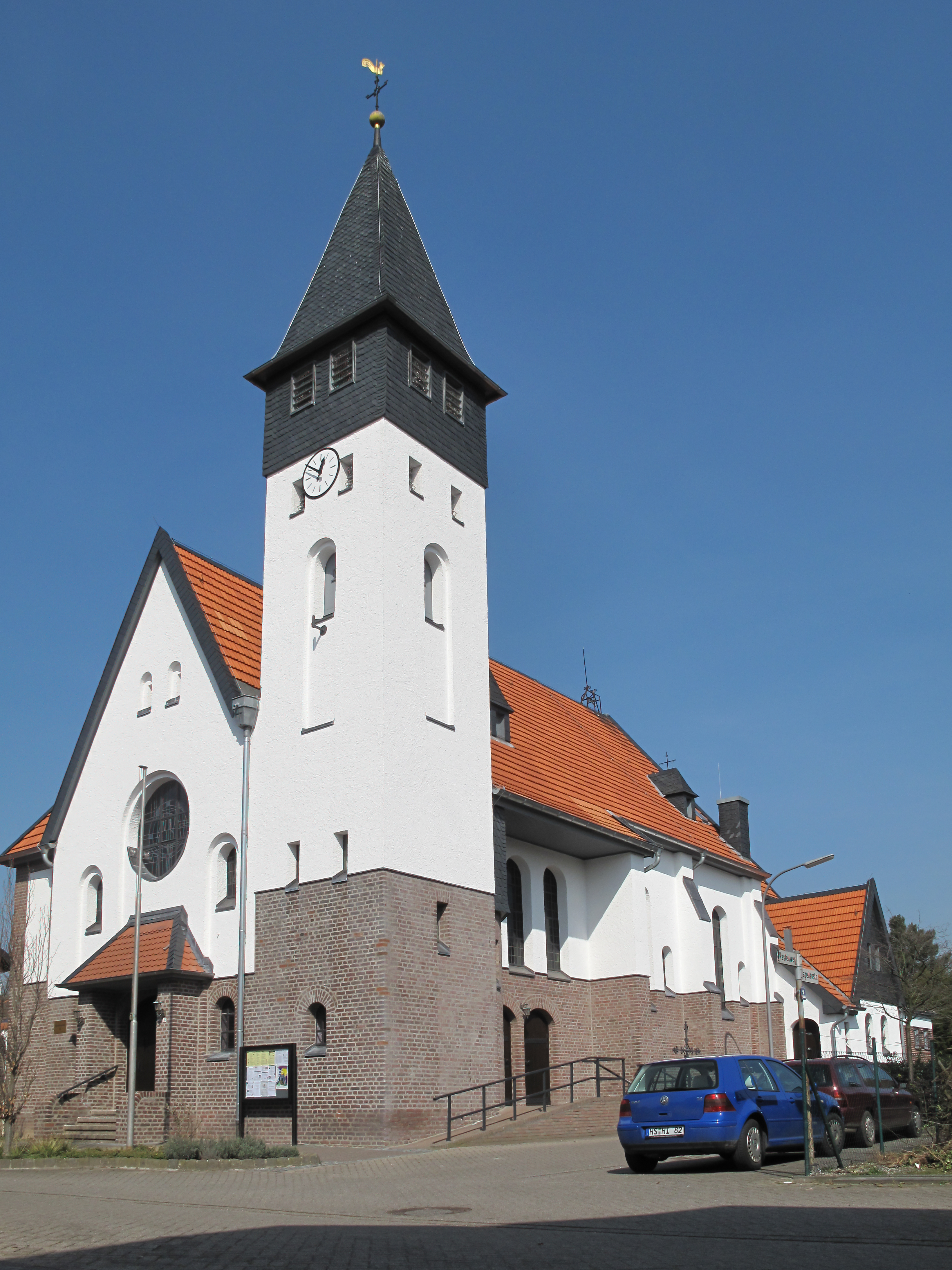 Effeld, church